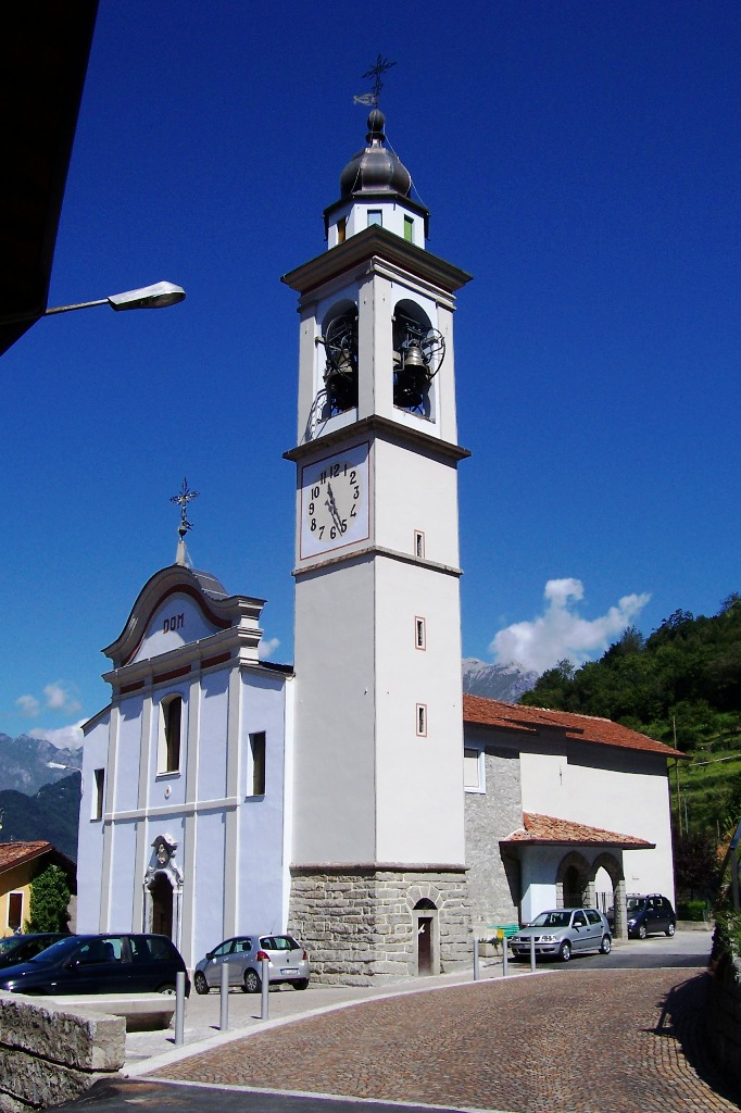 Parish church of Vitus, Modestus and Crescentia. Astrio, Breno, Val Camonica